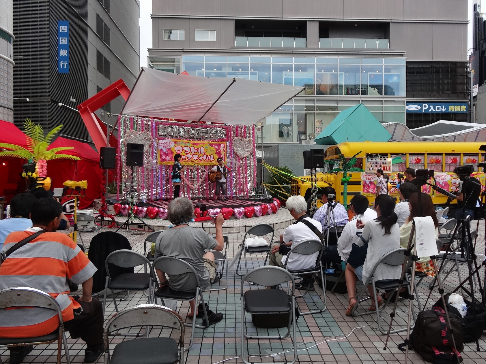 31st Hiroshima Locodol (Local Idol) Festival at "Alice Garden" (Shintenchi, Hiroshima City, Japan)